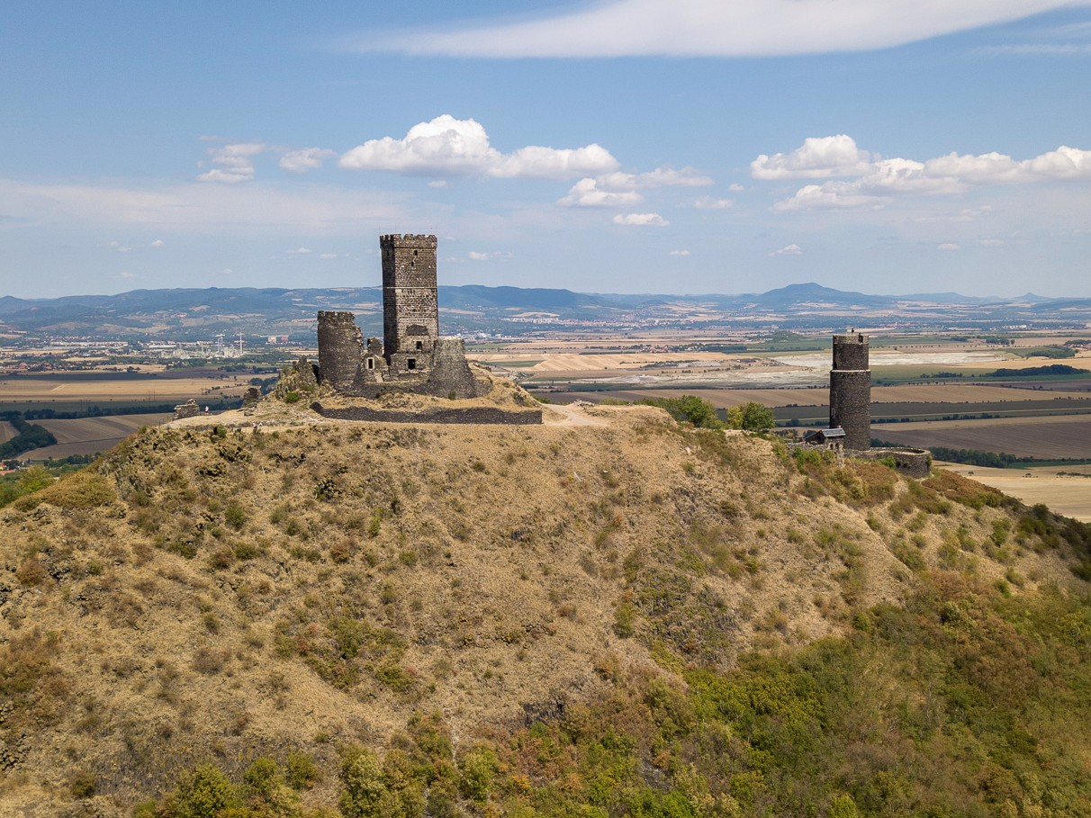 Aerial photography of castle Hazmburk.